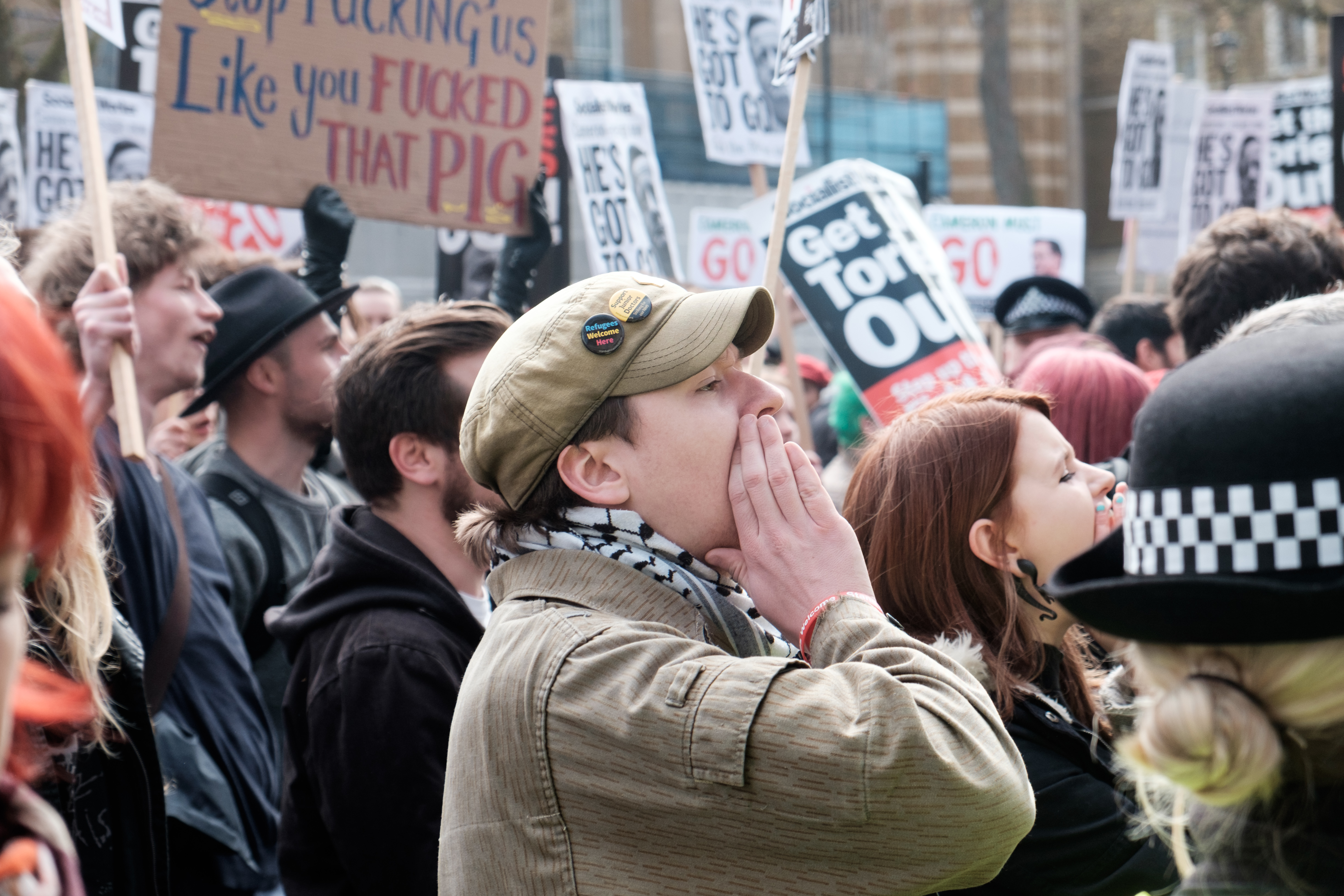 Protesters angry at David Cameron over his alleged tax affairs protested outside Downing Street then marched up Whitehall, along the Strand and up to Holborn.